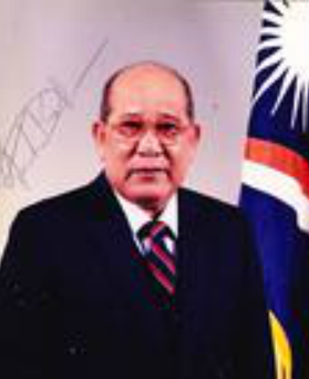 Amata Kabua, first president of the Marshall Islands